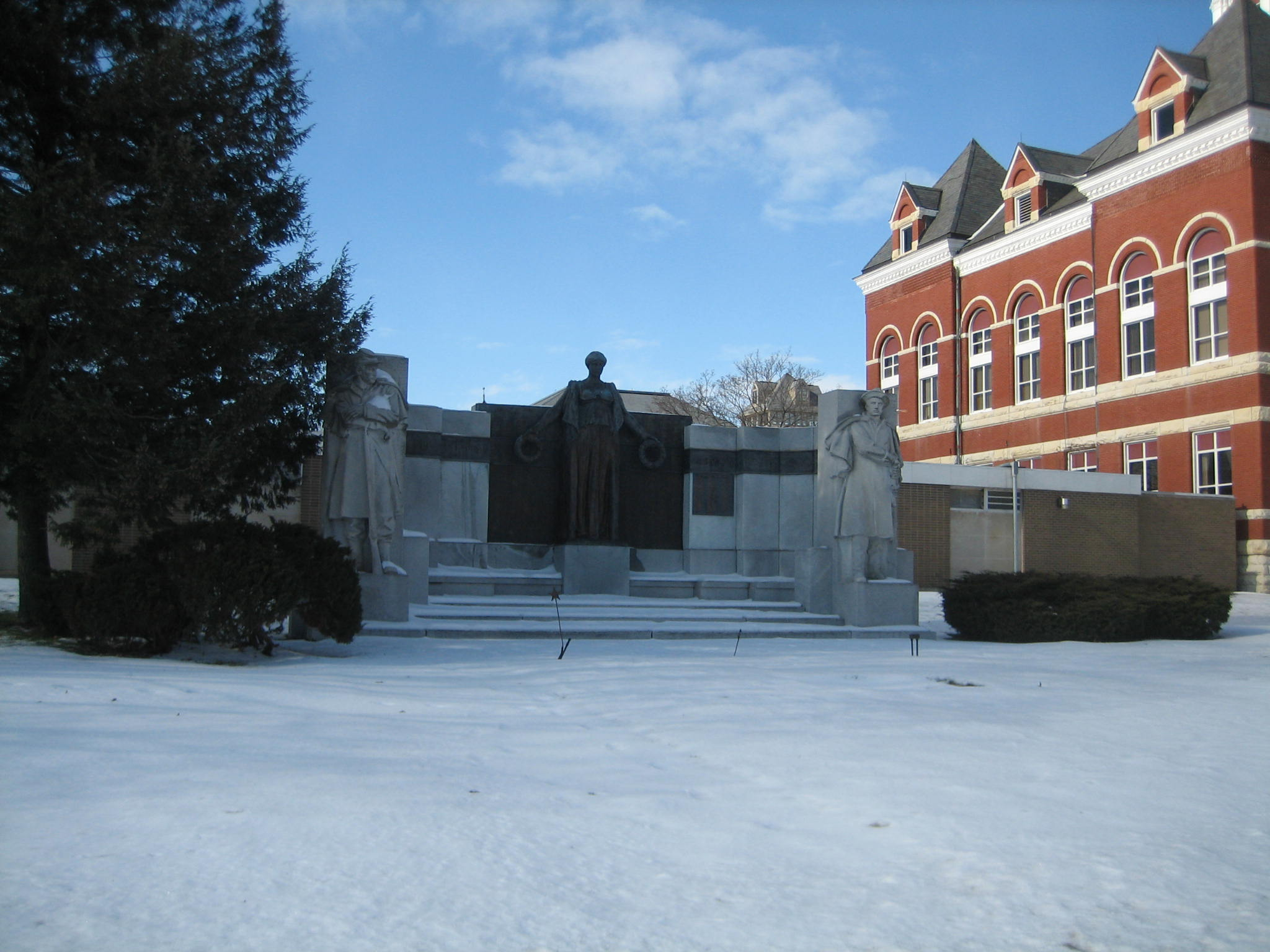 The Soldier's Monument, 1916, Courthouse Square, Oregon, Illinois. National Register of Historic Places as part of the Oregon Commercial Historic District.